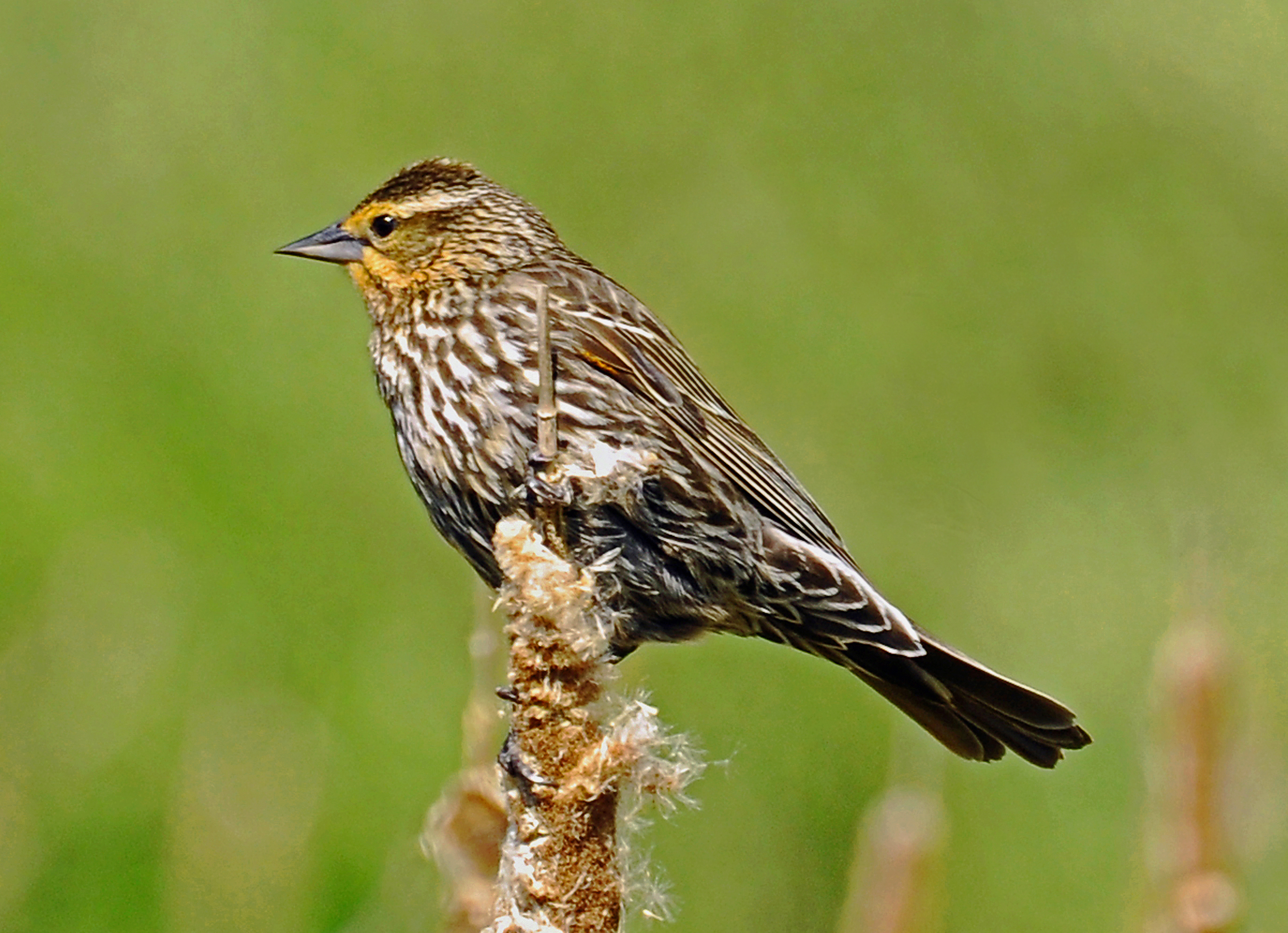 A female Red-winged Blackbird in Michigan, USA.